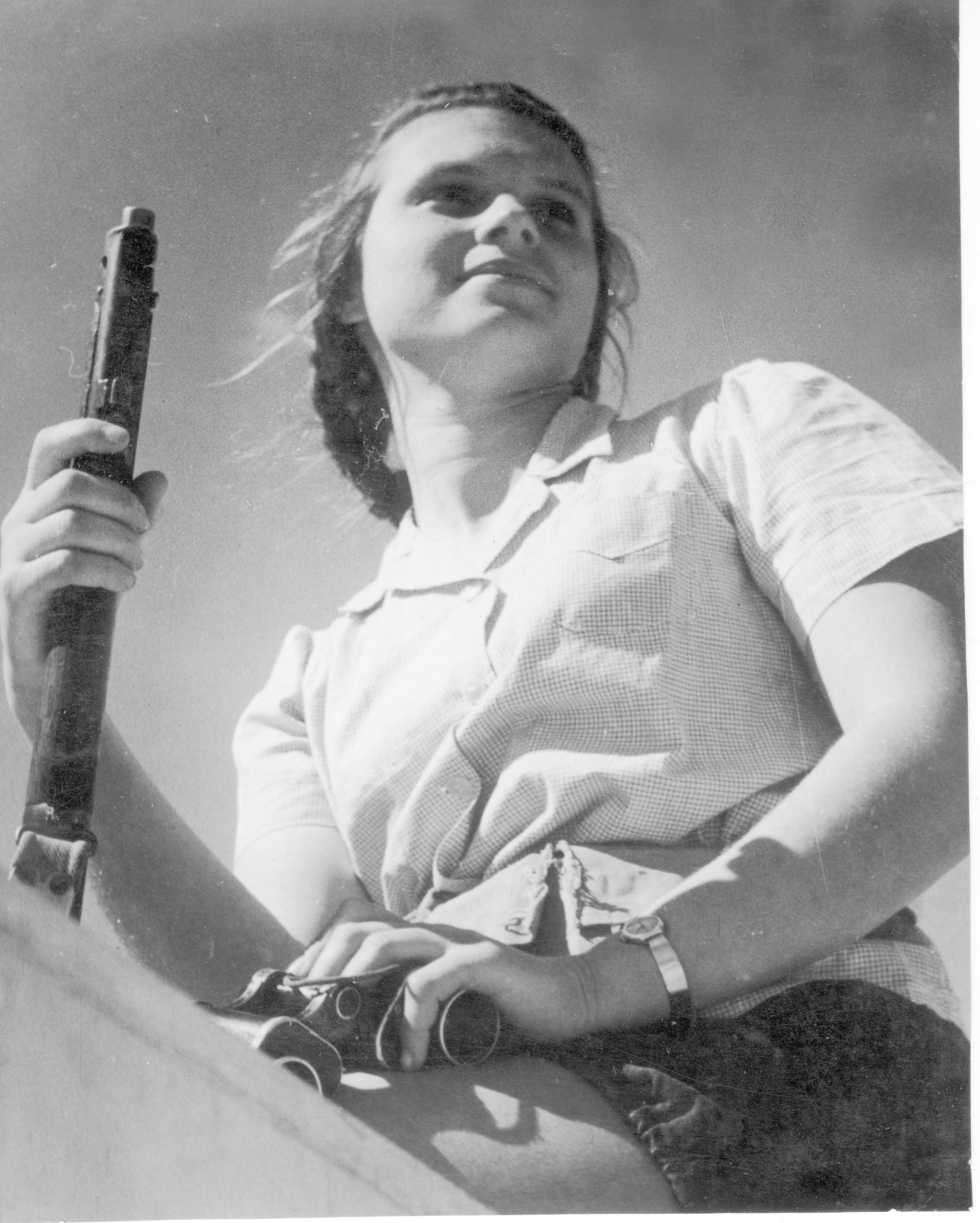 The Palmach, Israel Defense Forces